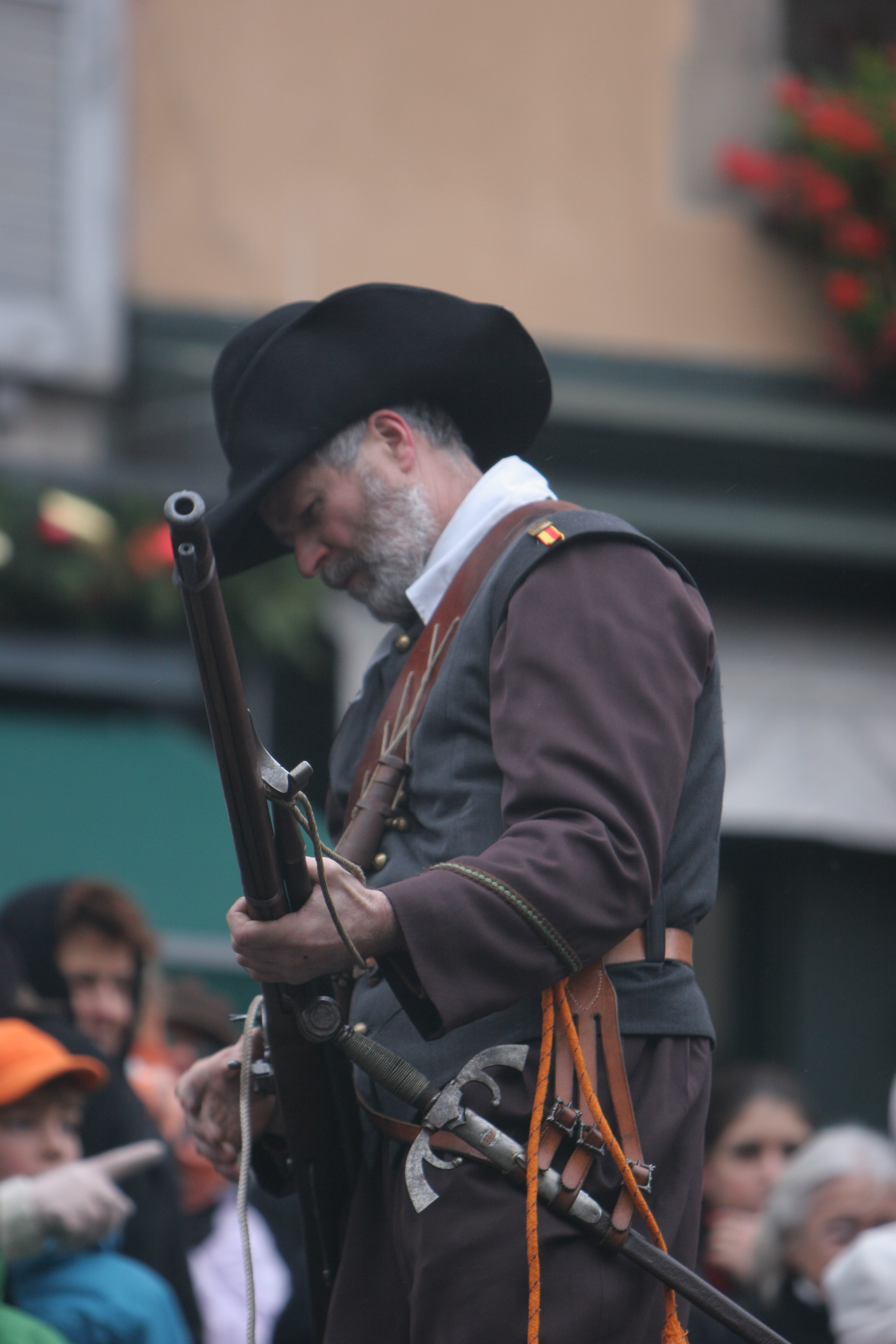 Arquebus firing during the Geneva Escalade of 2009